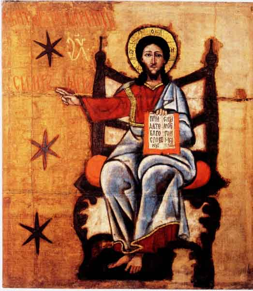 The flag of Şerban Cantacuzino, left as a present for the Christians after the battle of Vienna (1683)